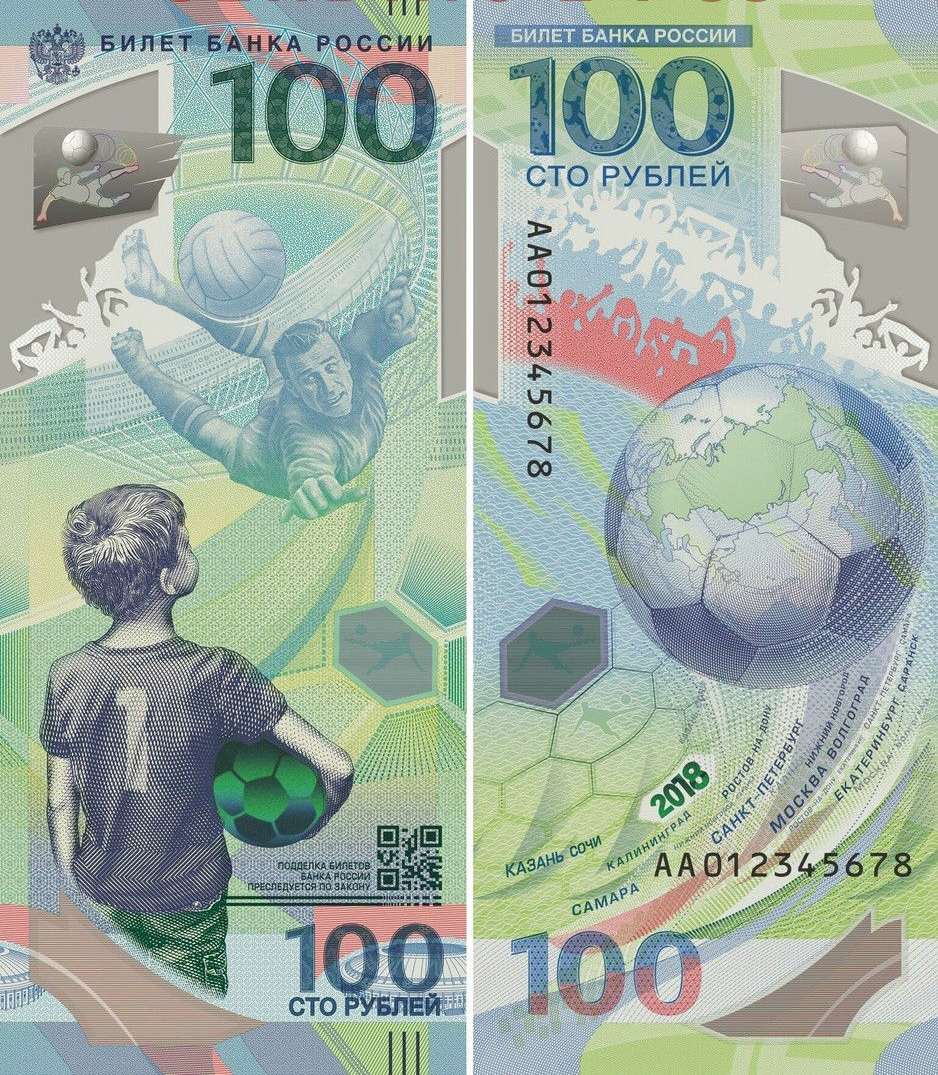 The 100-ruble Bank of Russia commemorative polymer note of 2018. The banknote celebrates the 2018 FIFA World Cup.